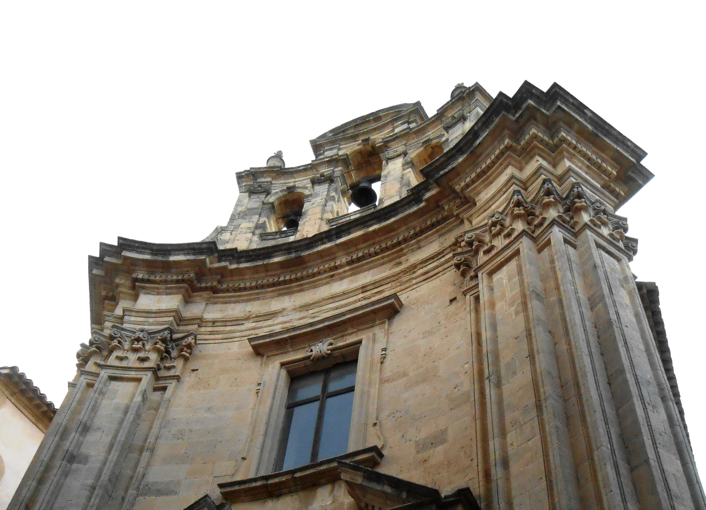 Holy Sacrament Church